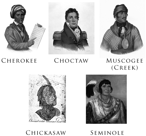 A collection of Public Domain images of the Five Civilized Tribes